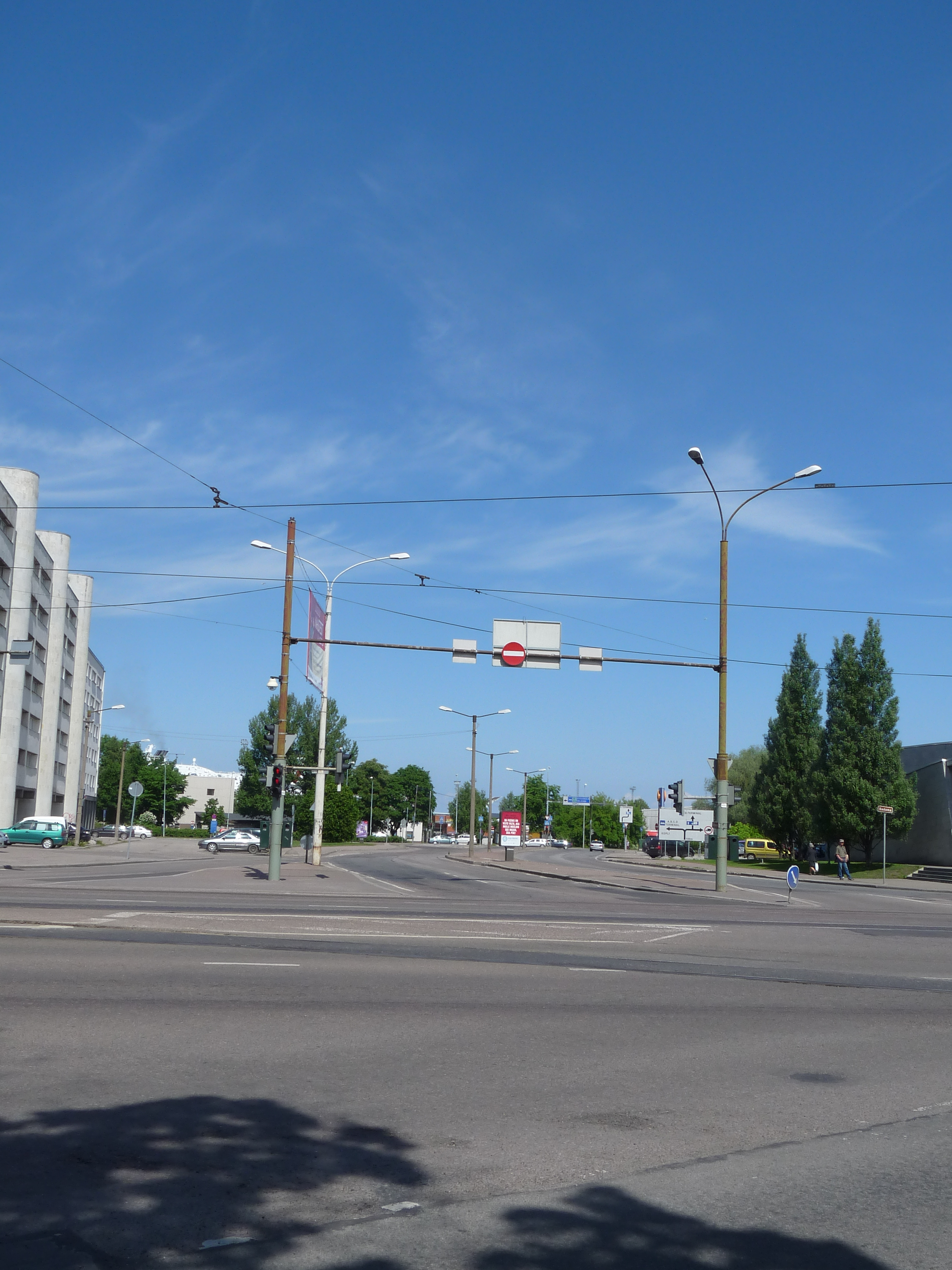 intersection of Petrooleumi and Narva maantee